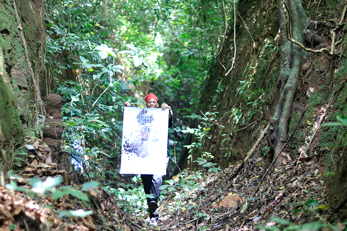 Multidisciplinary technologist Ade Olufeko inside world heritage site Sungbo's Eredo with heirloom Philosophers Legacy